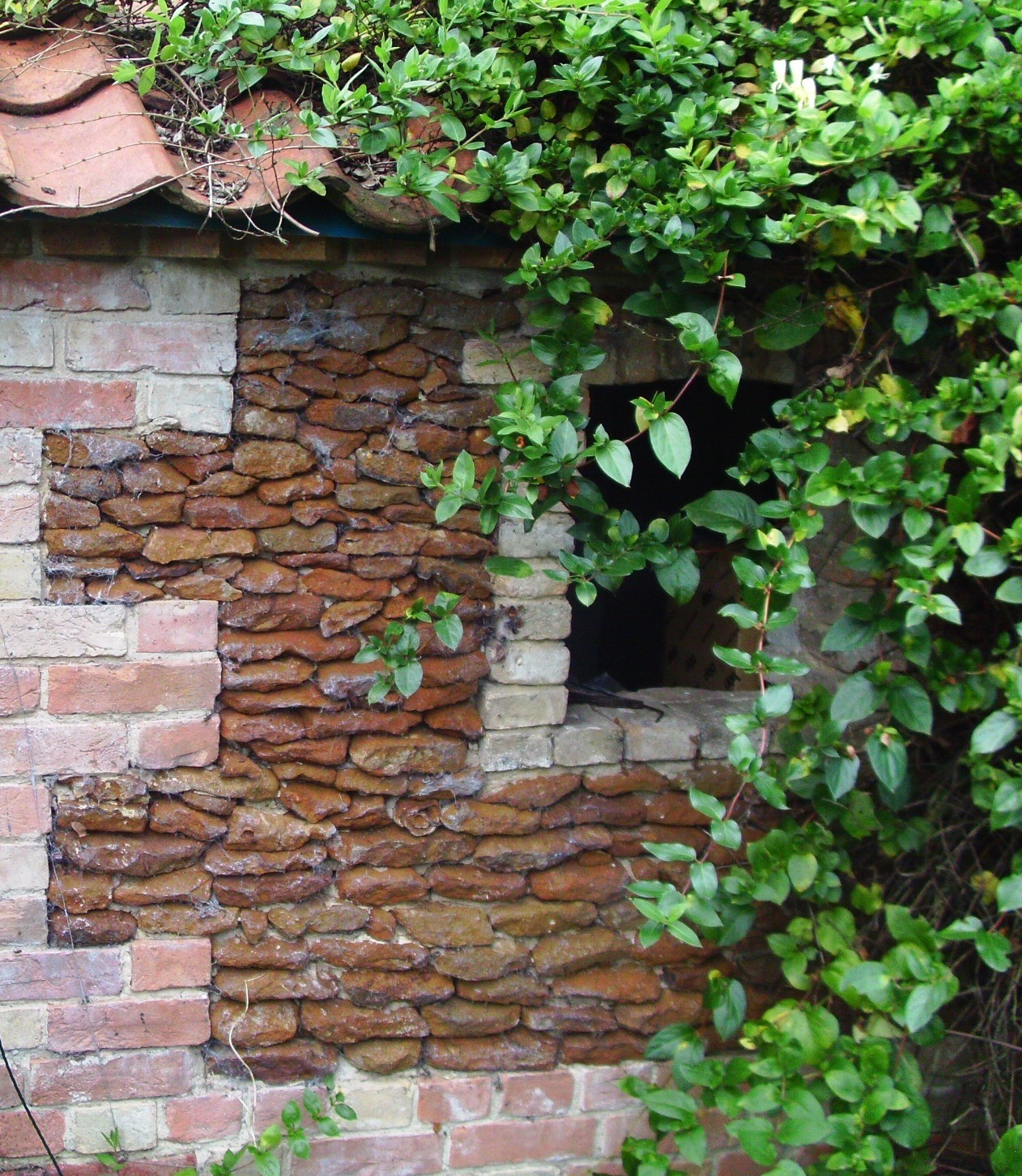 Carrstone